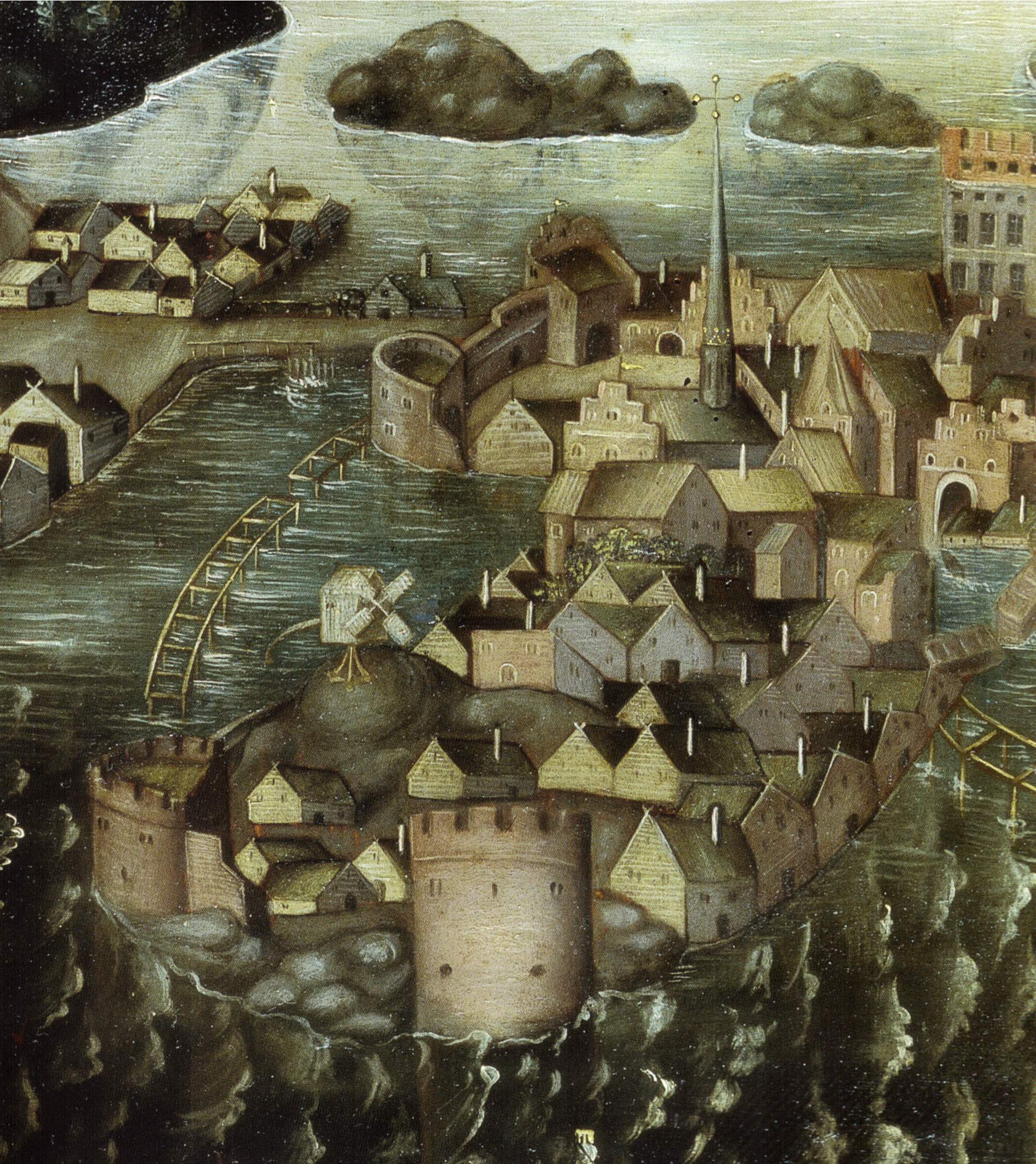 Detail from Vädersolstavlan showing Riddarholmen (Helgeandsholmen and Blasieholmen are in the background.)